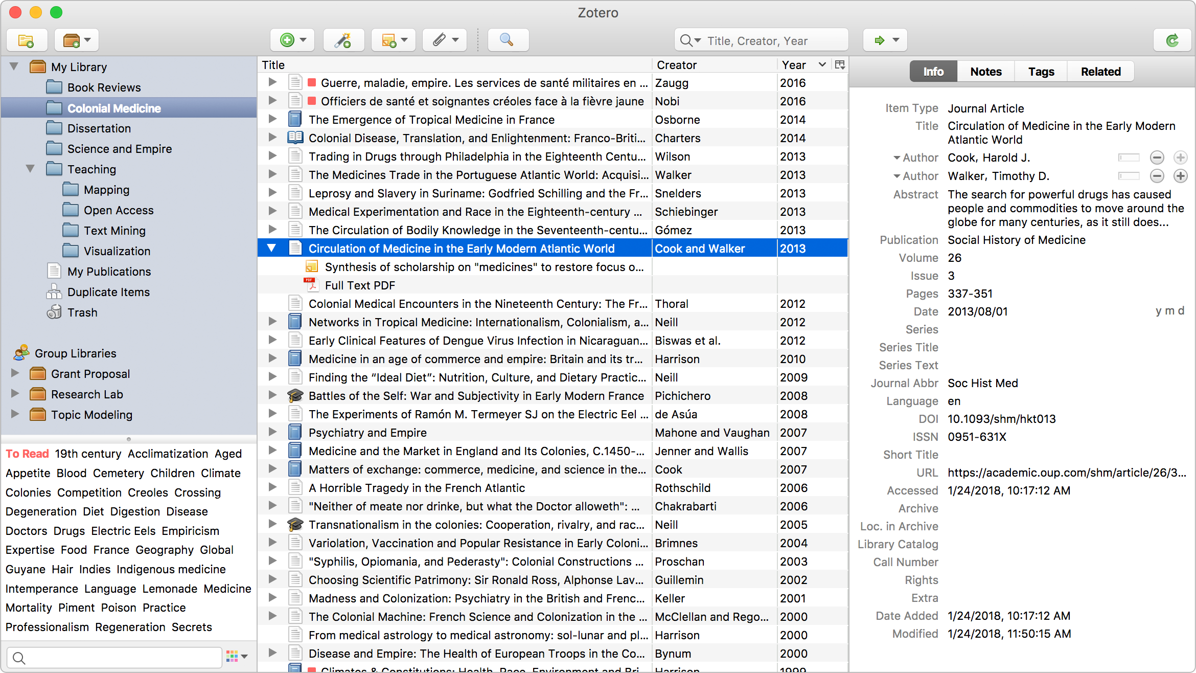 Screenshot of the Zotero 5.0 client on macOS, showing populated sample data.